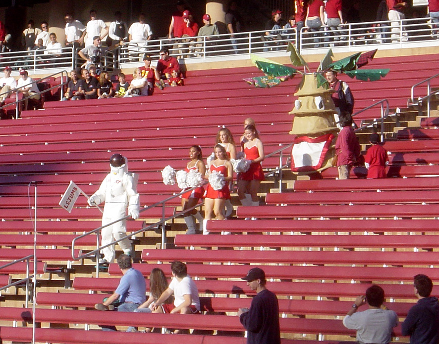 Enter the Space Cadets: The Stanford Tree and the Stanford Dollies follow the drum major of the Stanford Band (in astronaut costume) into Stanford Stadium. Photo taken by Bobak Ha'Eri, on November 4, 2006. Please observe license and properly cite in use outside Wikipedia.